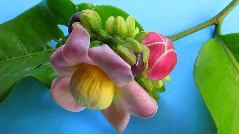 Lecythis ibiriba (Miers) N. P. Sm., S. A. Mori & Popovkin